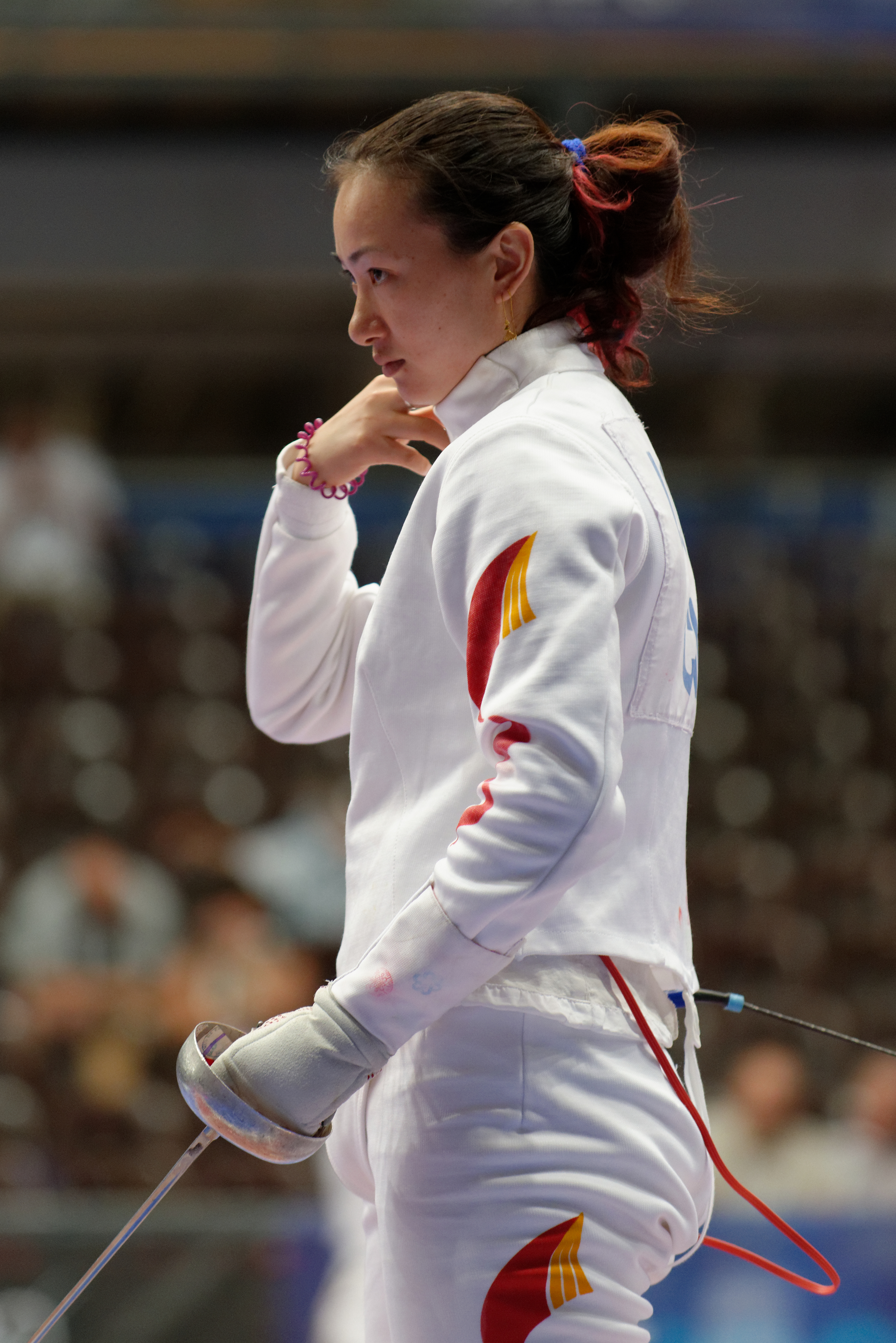 Luo Xiaojuan of China during her bout against Russia's Anna Sivkova in the women's épée table of 64 at the 2013 World Fencing Championships 2013 at Syma Hall in Budapest, 8 August 2013.